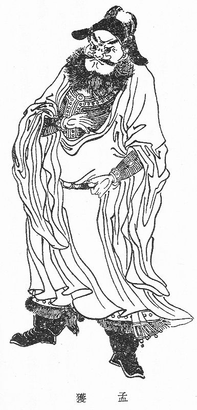 Portrait of the Nanman leader Meng Huo from a Qing Dynasty edition of The Romance of the Three Kingdoms.